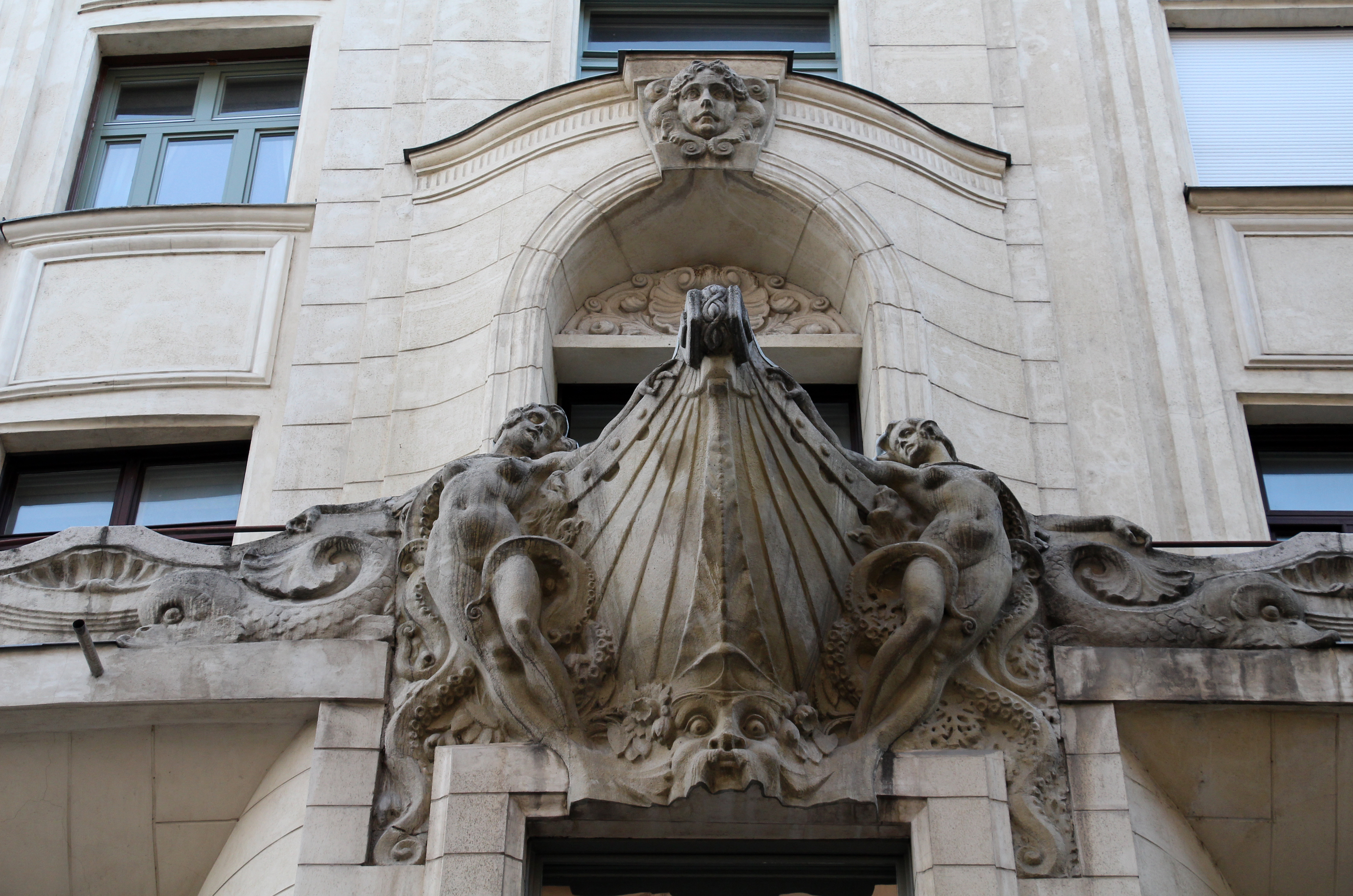 Magyar Királyi Folyam- és Tengerhajózási Rt székháza Budapest